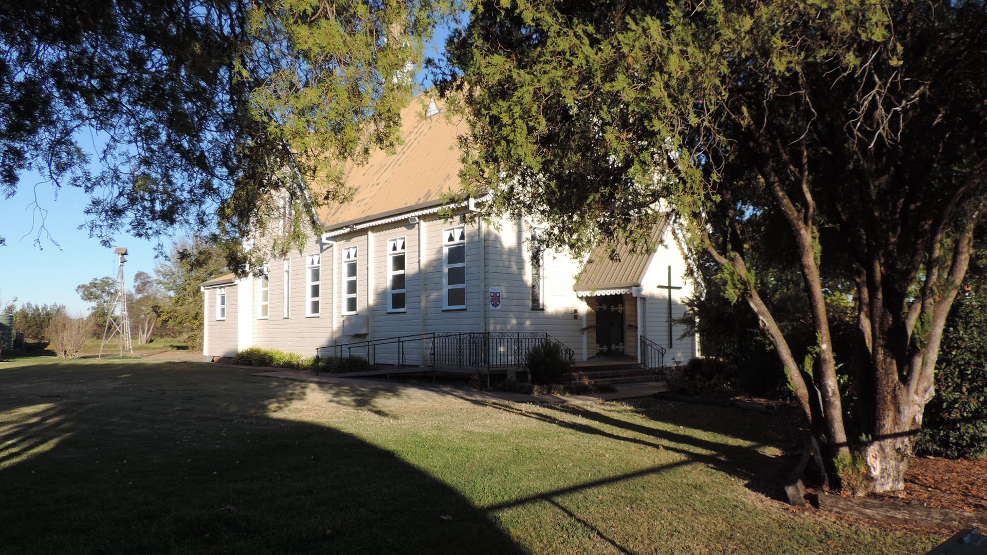 St Davids Anglican Church, Allora, side view, 2015